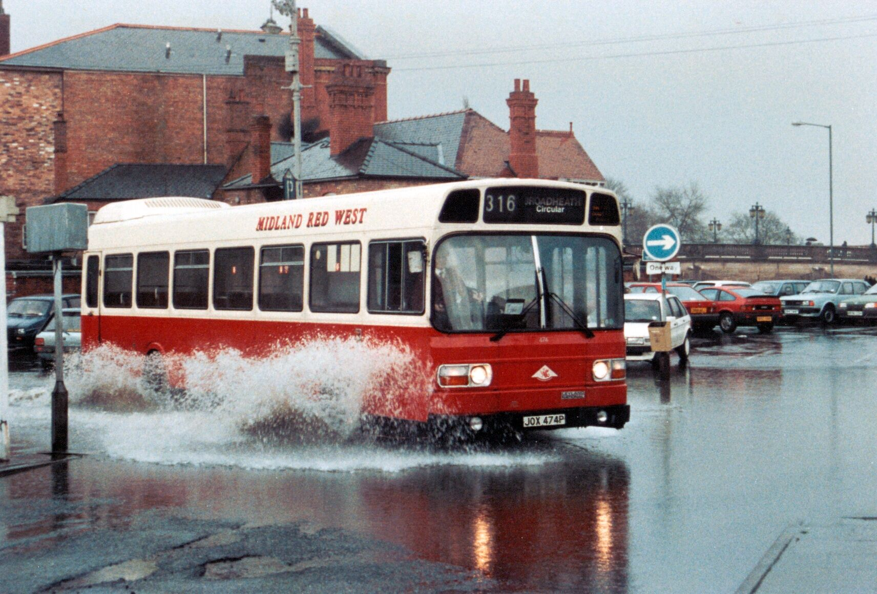 A play for the camera!